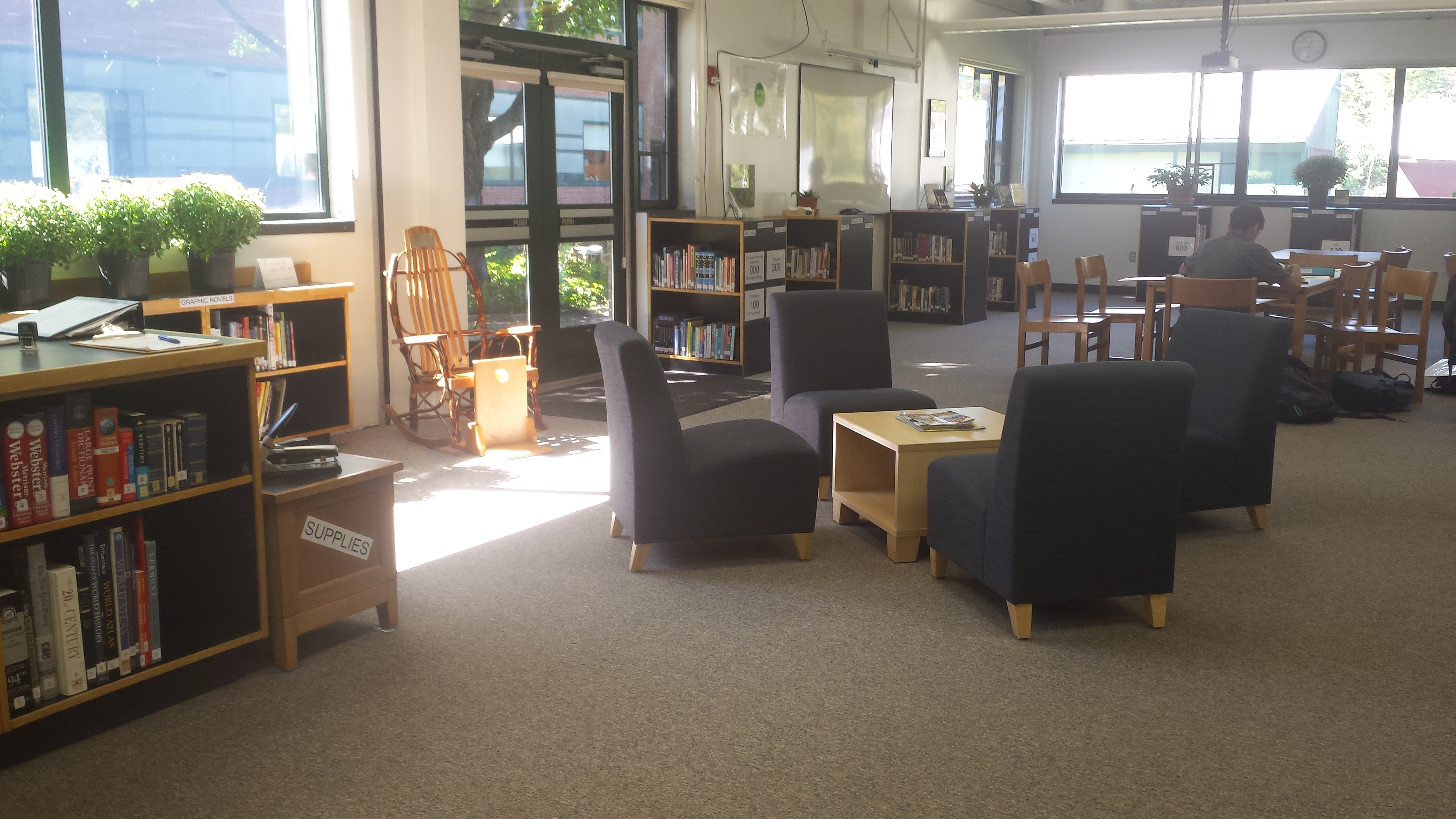 MHS library